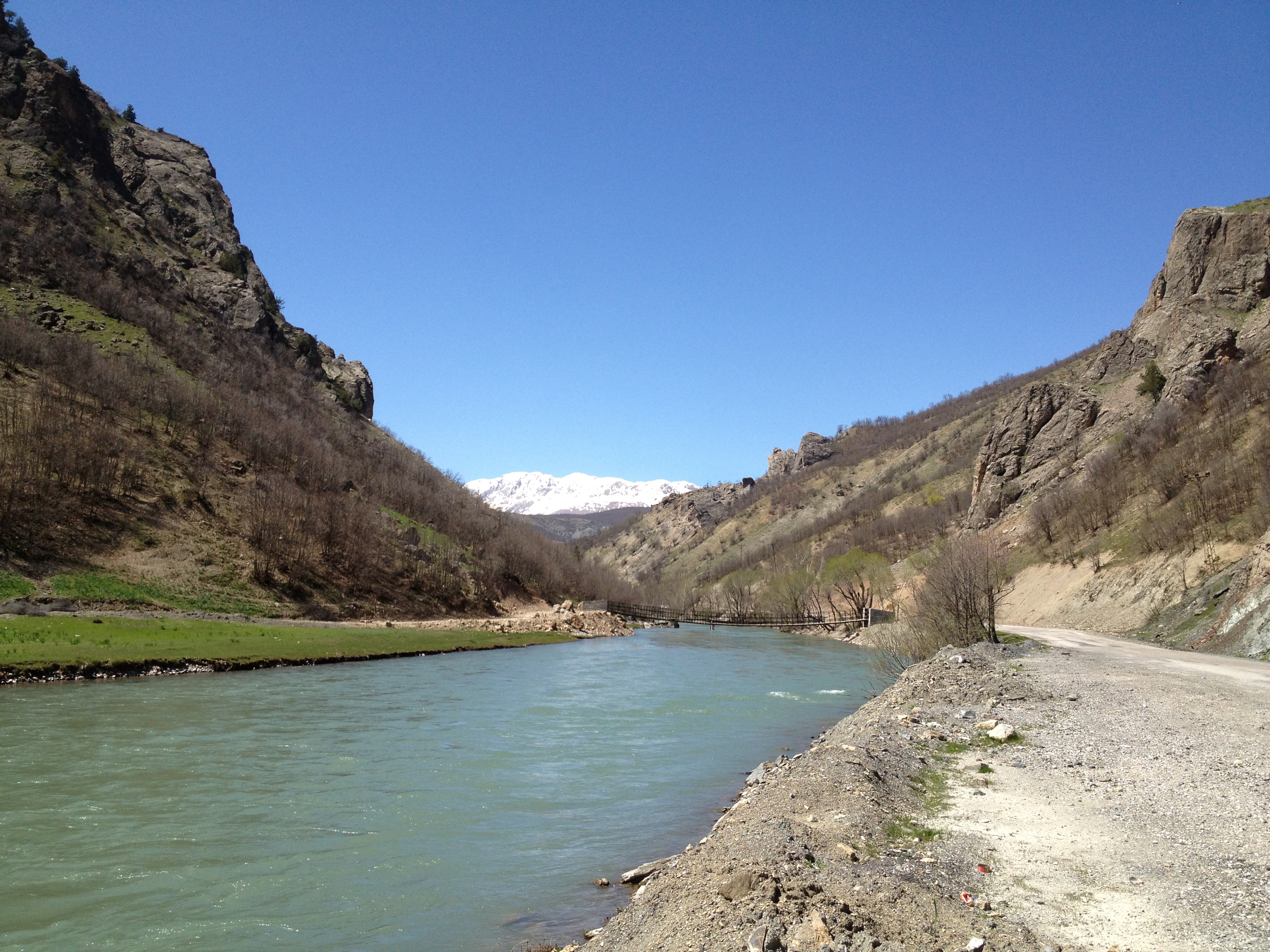 A view of Munzur River and Munzur Valley between Tunceli and Ovacik, Tunceli - Turkey.